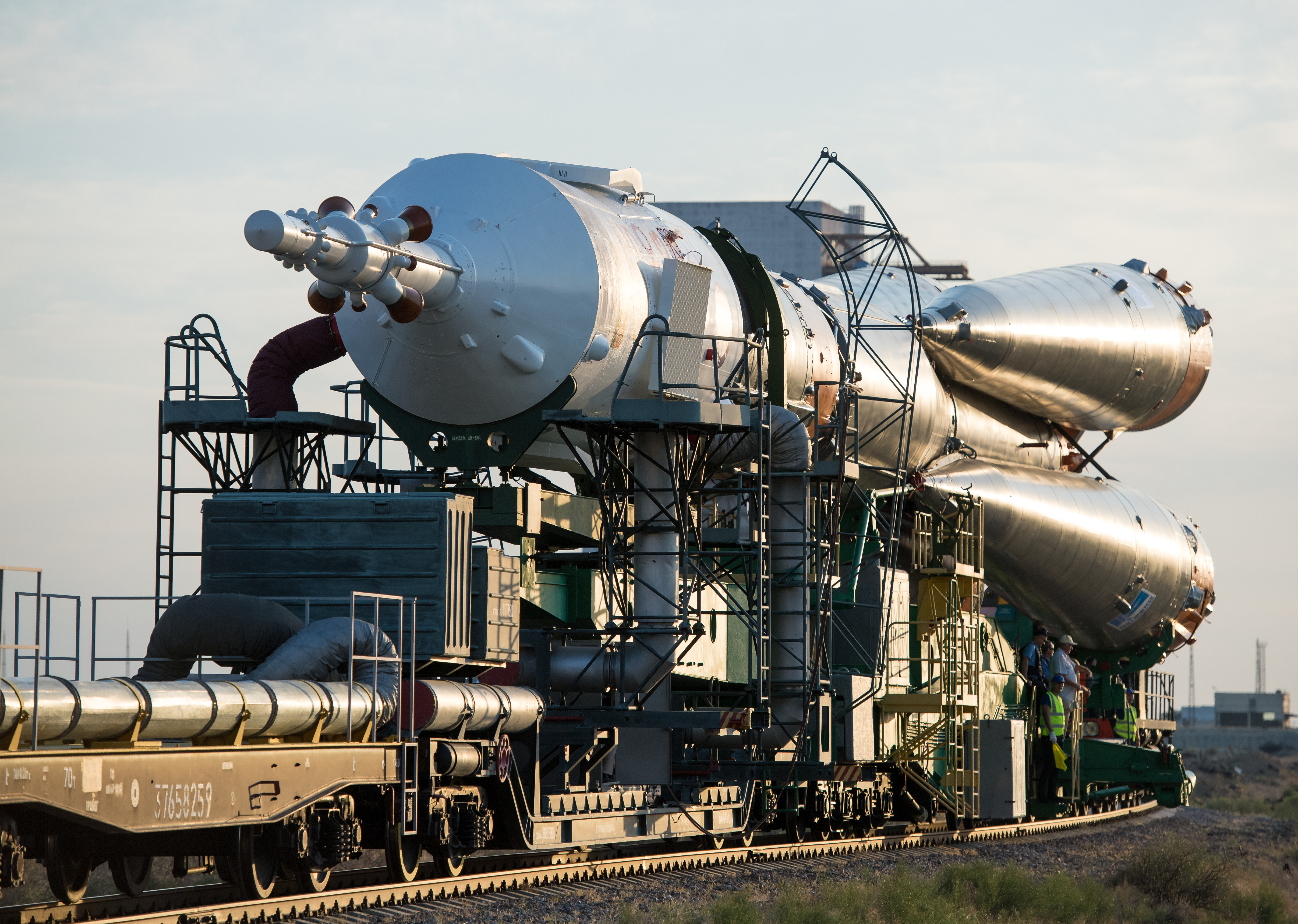 The Soyuz MS-05 spacecraft is rolled out by train to the launch pad at the Baikonur Cosmodrome, Kazakhstan, Wednesday, July 26, 2017. Expedition 52 flight engineer Sergei Ryazanskiy of Roscosmos, flight engineer Randy Bresnik of NASA, and flight engineer Paolo Nespoli of ESA (European Space Agency), are scheduled to launch to the International Space Station aboard the Soyuz spacecraft from the Baikonur Cosmodrome on July 28.